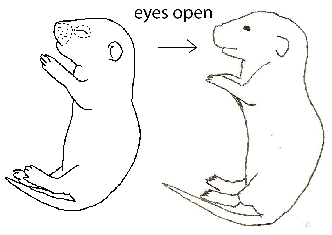 Standard Event System character depiction